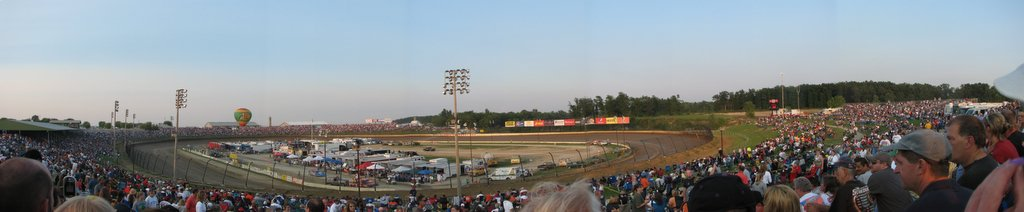 Panoramic shot of Eldora Speedway on 6 Sep 2006 at the Prelude To The Dream. This is a charity fundraiser race with NASCAR greats driving late model stock cars on a dirt track. There were thousands of people in attendance. I've never seen a dirt track with so many people. They have over 20,000 seats and a huge general admision area. Eldora is a very cool track.